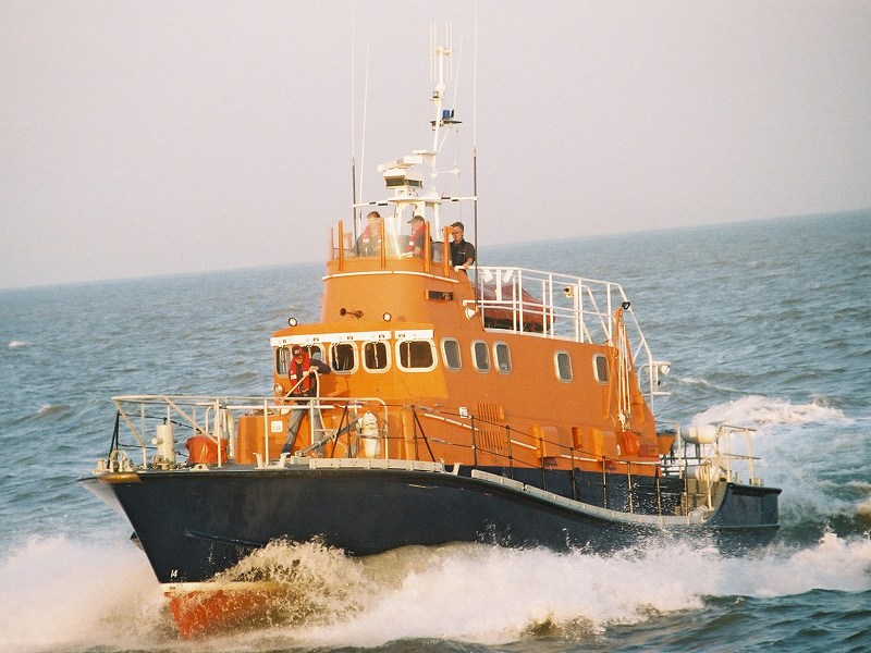 Arun Class Lifeboat at Speed